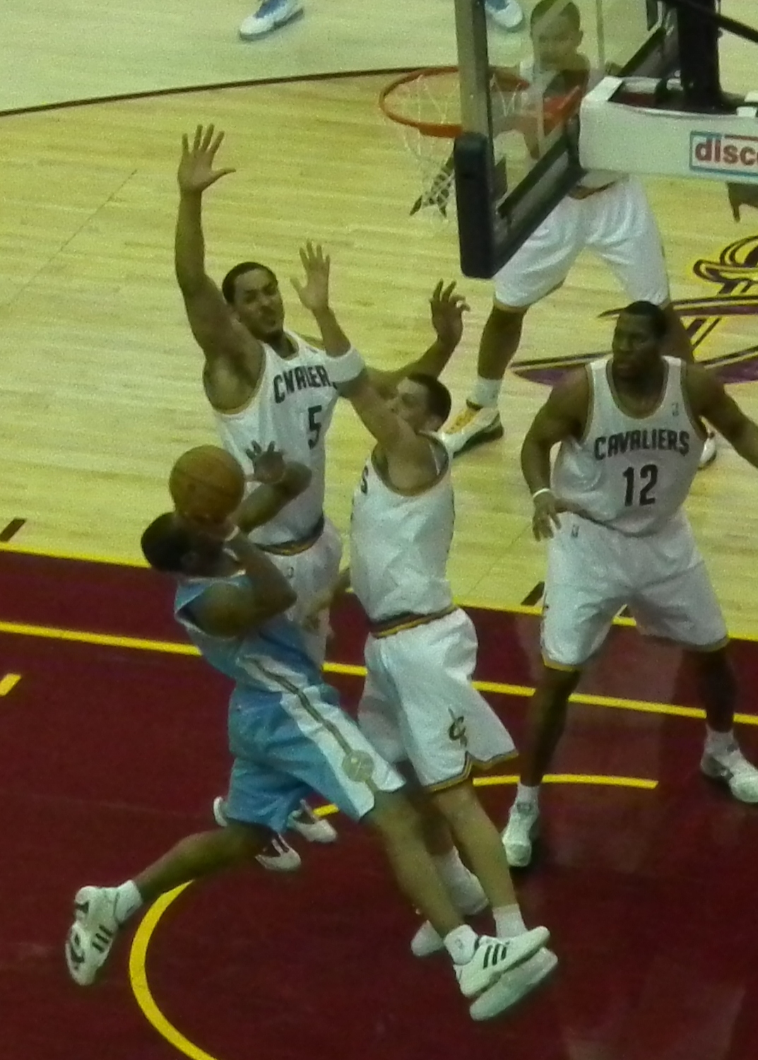 Ryan Hollins and Anthony Parker contesting a shot.